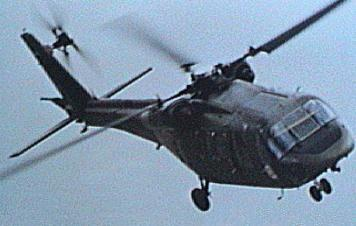 Boeing Vertol YUH-61. US Government site, no restrictions cited